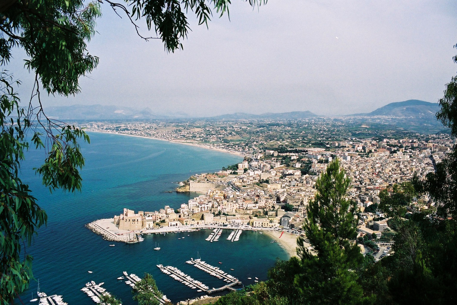 Castellammare del Golfo View from a hillside to the port, the castle and the town